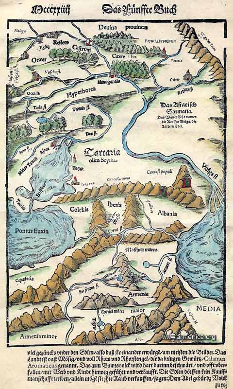 Tartaria & Asistic Sarmatia